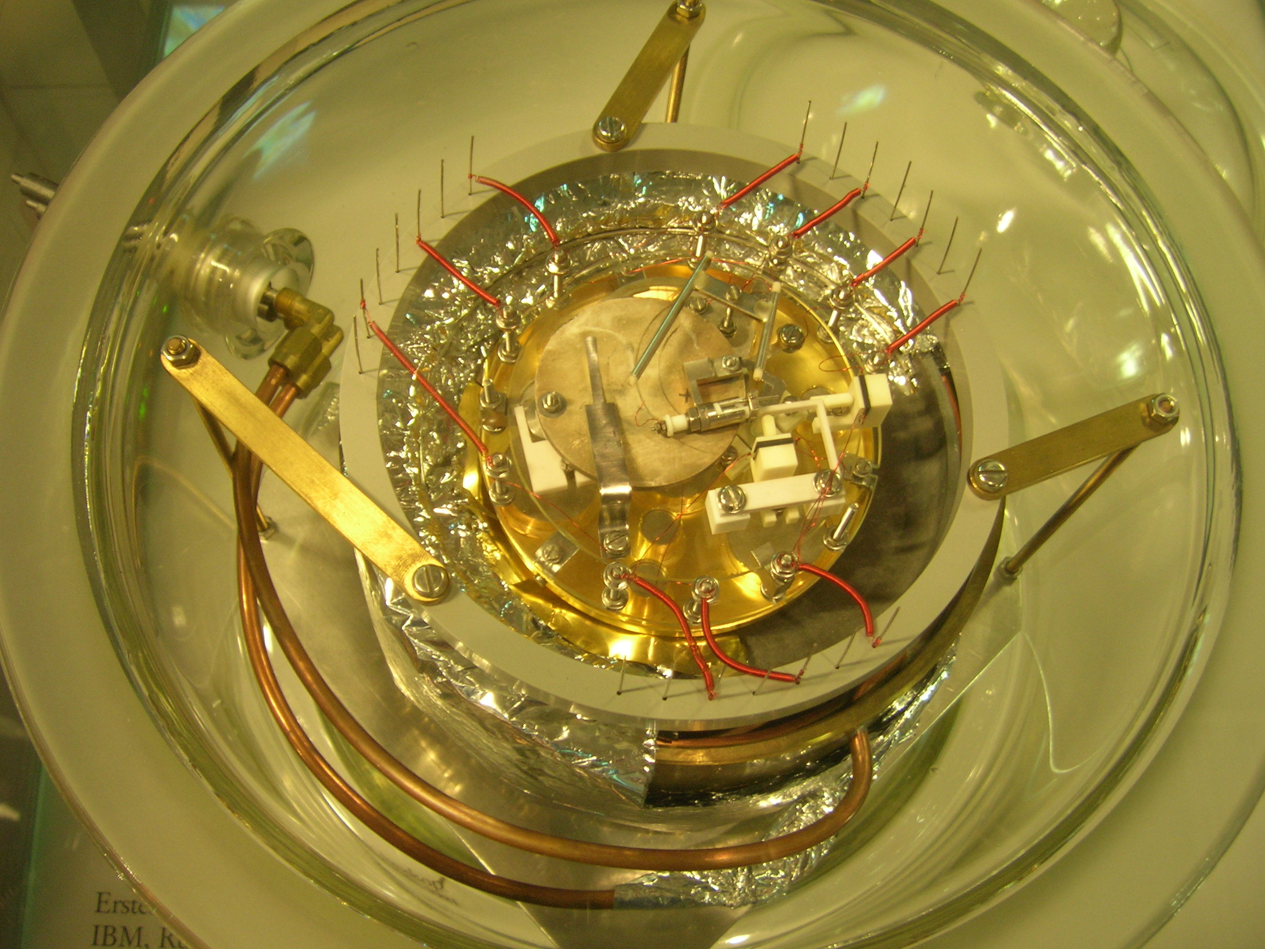 This is a Nobel Prize winning example of doing more with less First Scanning tunneling microscope IBM Research Zurich 1981 (Explanation from Deutsches Museum with wiki hyperlinks added by me) The scanning tunneling microscope has given rise to new possibilities of investigating surfaces on the scale of individual atoms. Rather than "seeing" the atoms, the instrument "feels" them by scanning the surface line by line with a very sharp tip at a constant distance of a few atomic diameters. This distance is minimized in a feedback loop by the tunneling current tip and sample when a voltage is applied. The current is extremely dependent on the distance between tip and sample - the smaller the distance, the larger the current. Reducing the distance by only one-tenth of a nanometer (a millonth of a millimeter) increase the current tenfold. A tripod of piezoelectric rods allows very precise movement of the microscope tip in all directions. By applying and removing a voltage, these elements expand and shrink, between 0.1 and 10 picometers (a billionth of a millimeter) per millivolt. The STM measurement results constitute a field of scanned lines from which a three-dimensional image of the surface can be obtained in millionfold magnification e.g. by computer image processing. Since the breakthrough of the first STM in 1981, numerous further developments and variations quickly led to a wealth of new knowledge in quite diverse research areas. The STM principle is generally considered a key in nanotechnology owing to its capability to image surfaces and investigate their properties on the nanometer scale. and ultimately, even to change structures atom by atom. The first significant step in the latter direction was the controlled deposition of individual atoms in 1990. The invention of the scanning tunneling microscope brought Gerd Binnig , a German, and Heinrich Rohrer, a Swiss, both from IBM Zurich Reasearch Laboratory, the physics Nobel prize in 1986. i061706 120